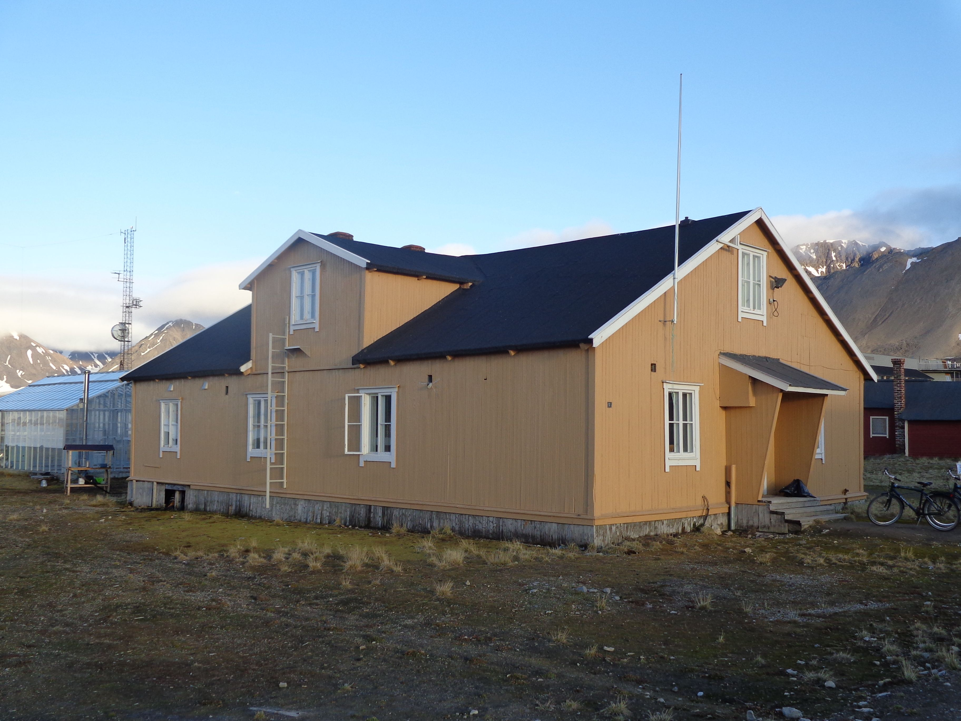 Indian station in Ny-Ålesund, Svalbard